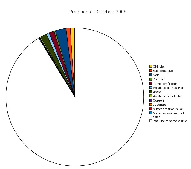 Visible minorities in Quebec